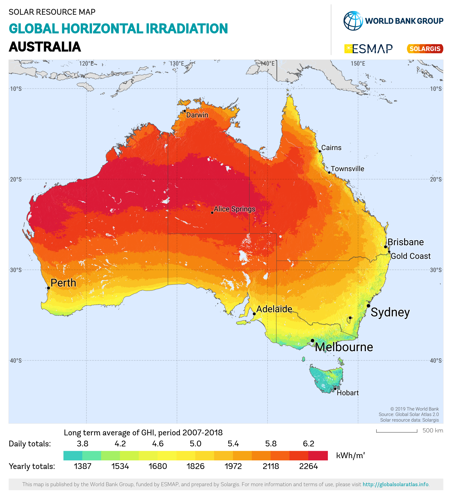 Global Horizontal Irradiation of Australia